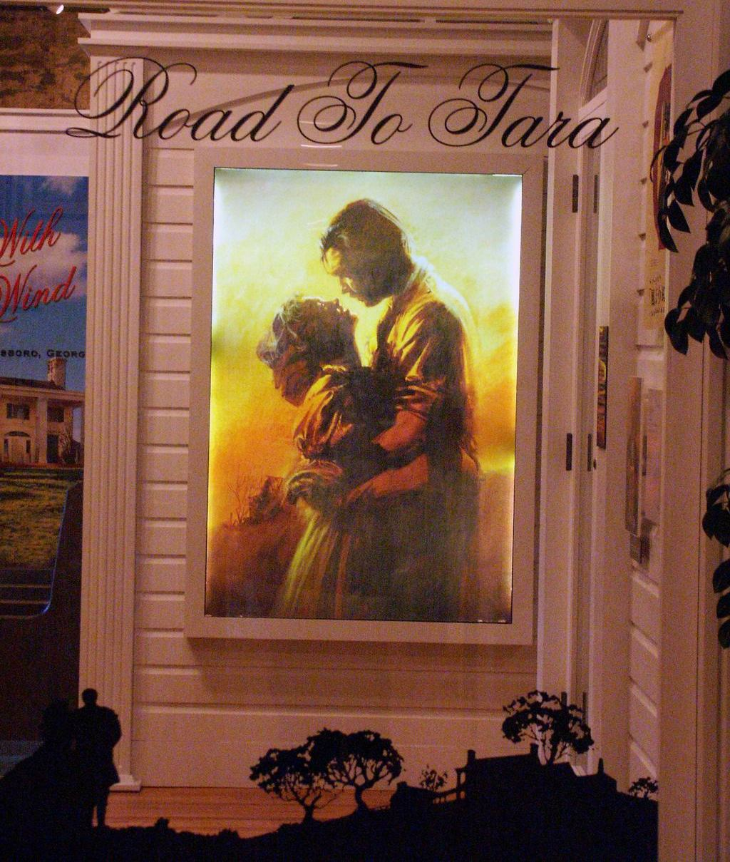 "Road to Tara" - "Gone with the Wind" Museum in Jonesboro, Georgia